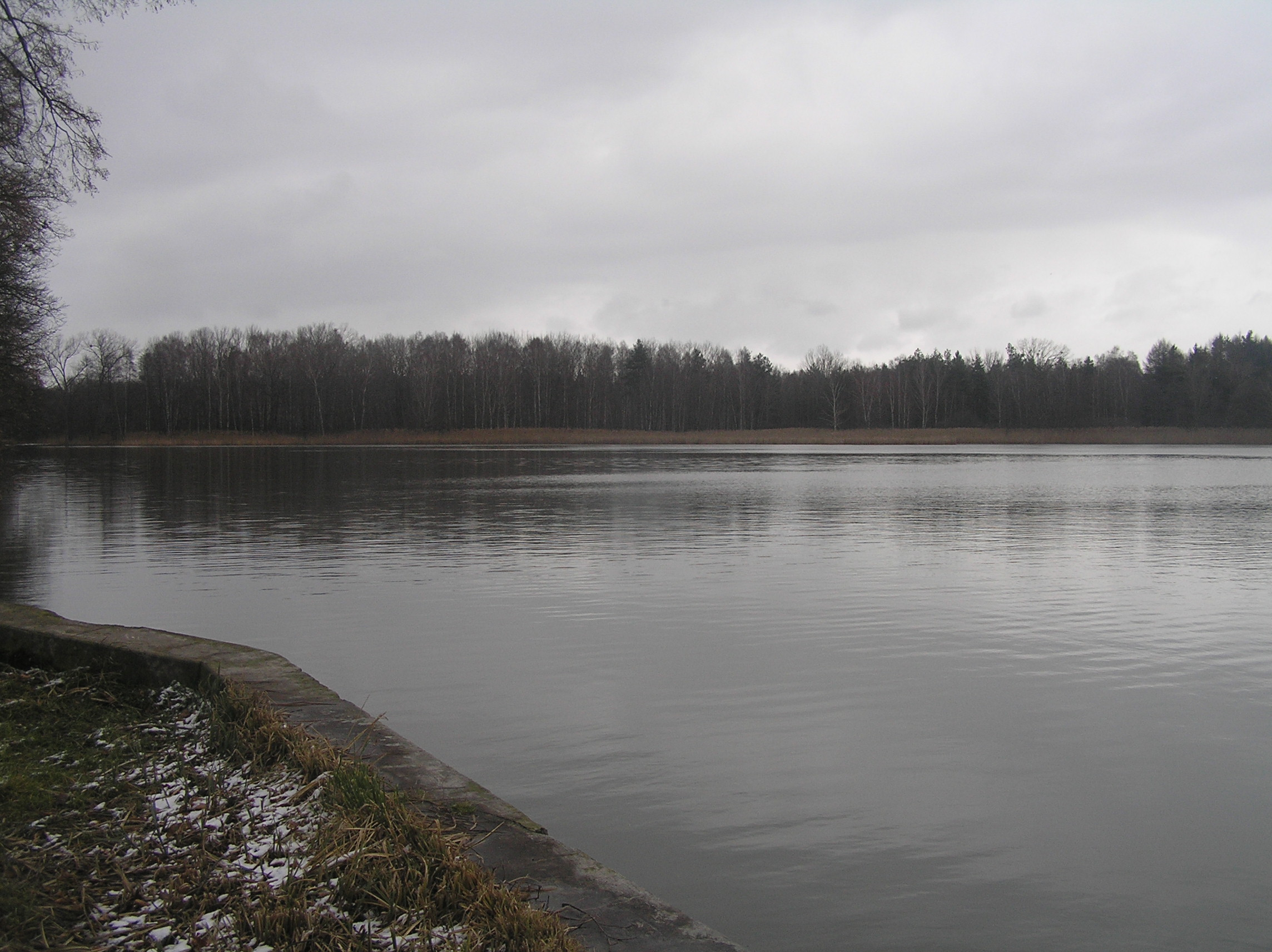 Lodrant is the large pond near the village Trusnov in Pardubice region, Czech republic.